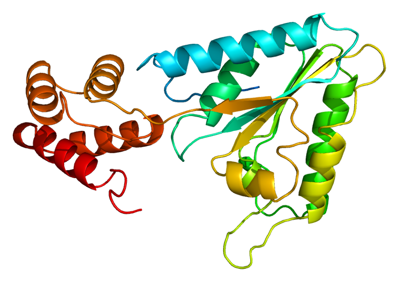 Structure of the NSF protein. Based on PyMOL rendering of PDB 1d2n.